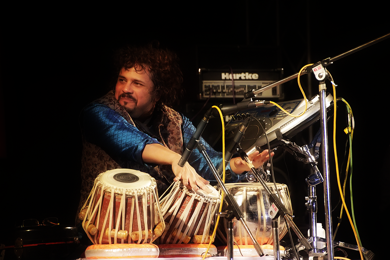 Bickram Ghosh renown Indian Tabla player performing fusion music during 2nd Guwahati International Music Festival on 24th Nov 2012 at Silpagram , Guwahati, Assam, India .